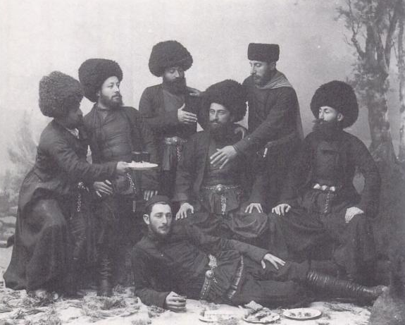 Georgian supra